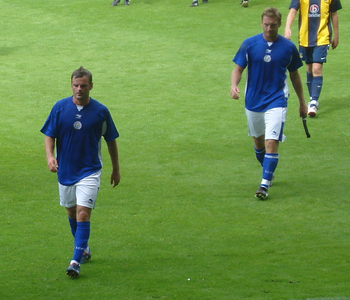 (Image cropped from original at Flickr)